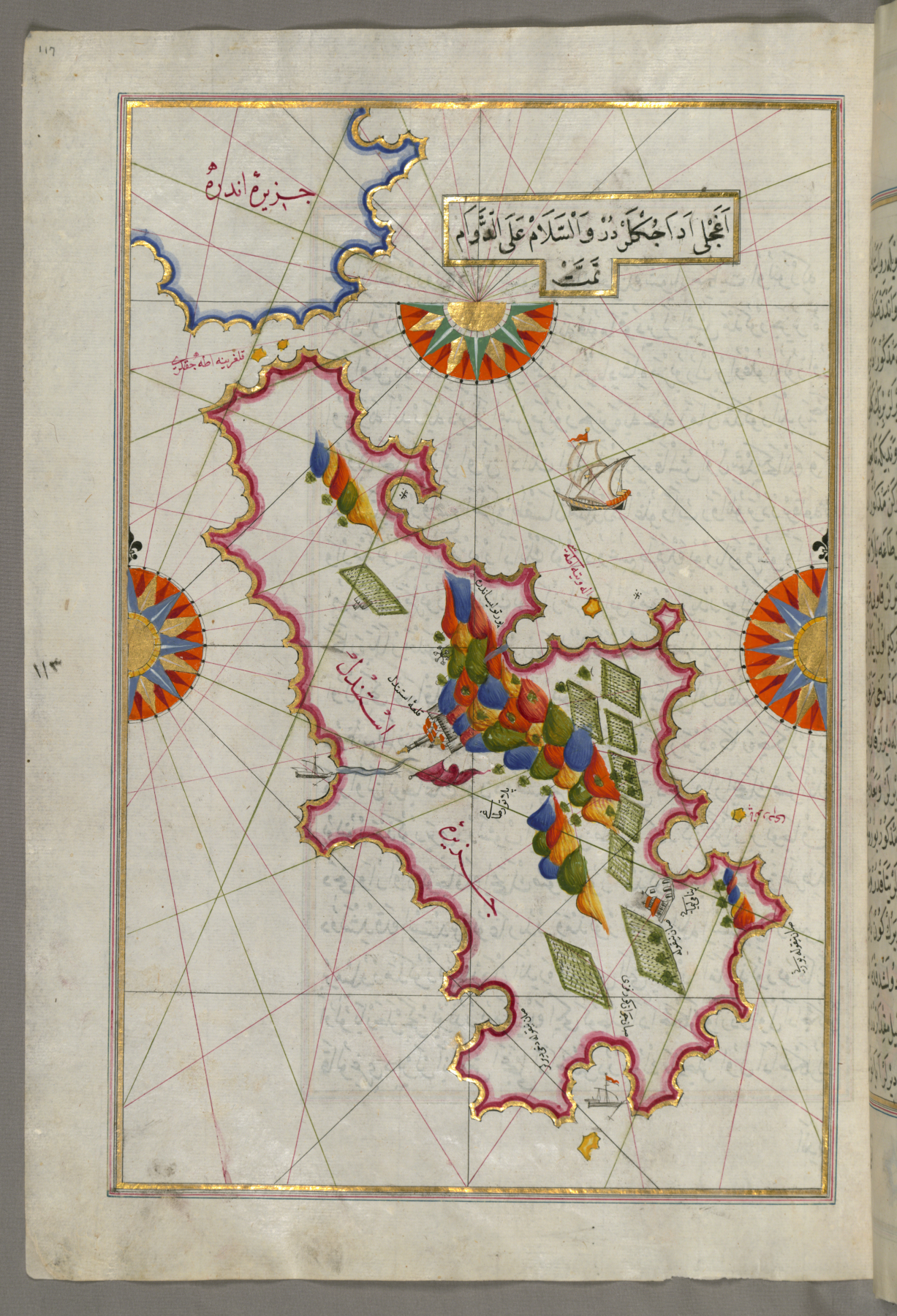 This folio from Walters manuscript W.658 contains a map of Tinos (Istendil) Island in the Aegean Sea.